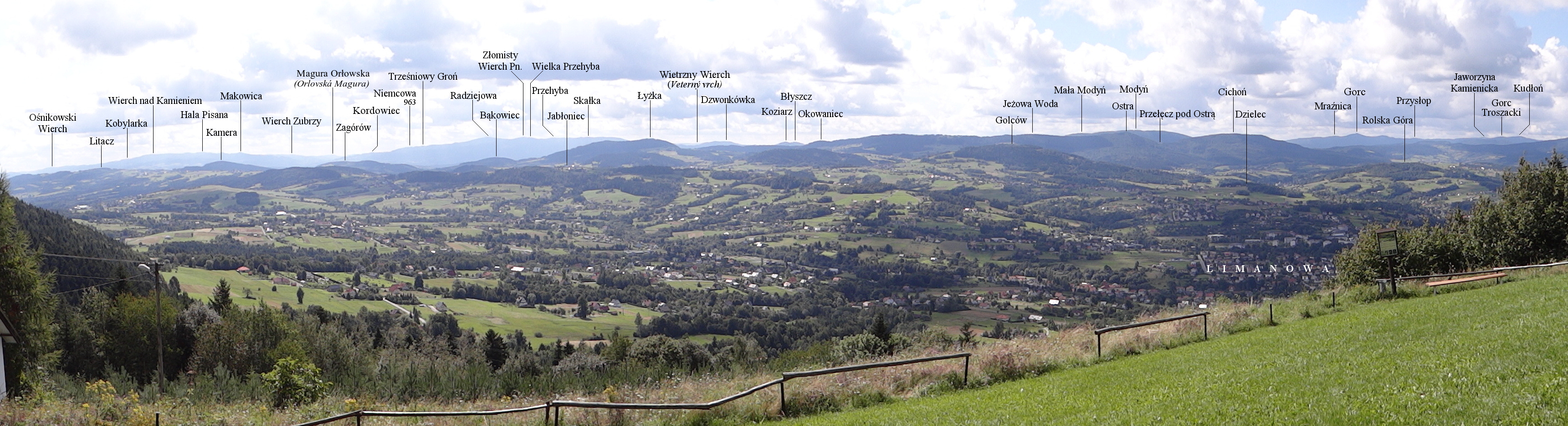 Panoramic view from Miejska Góra in Limanowa with labels